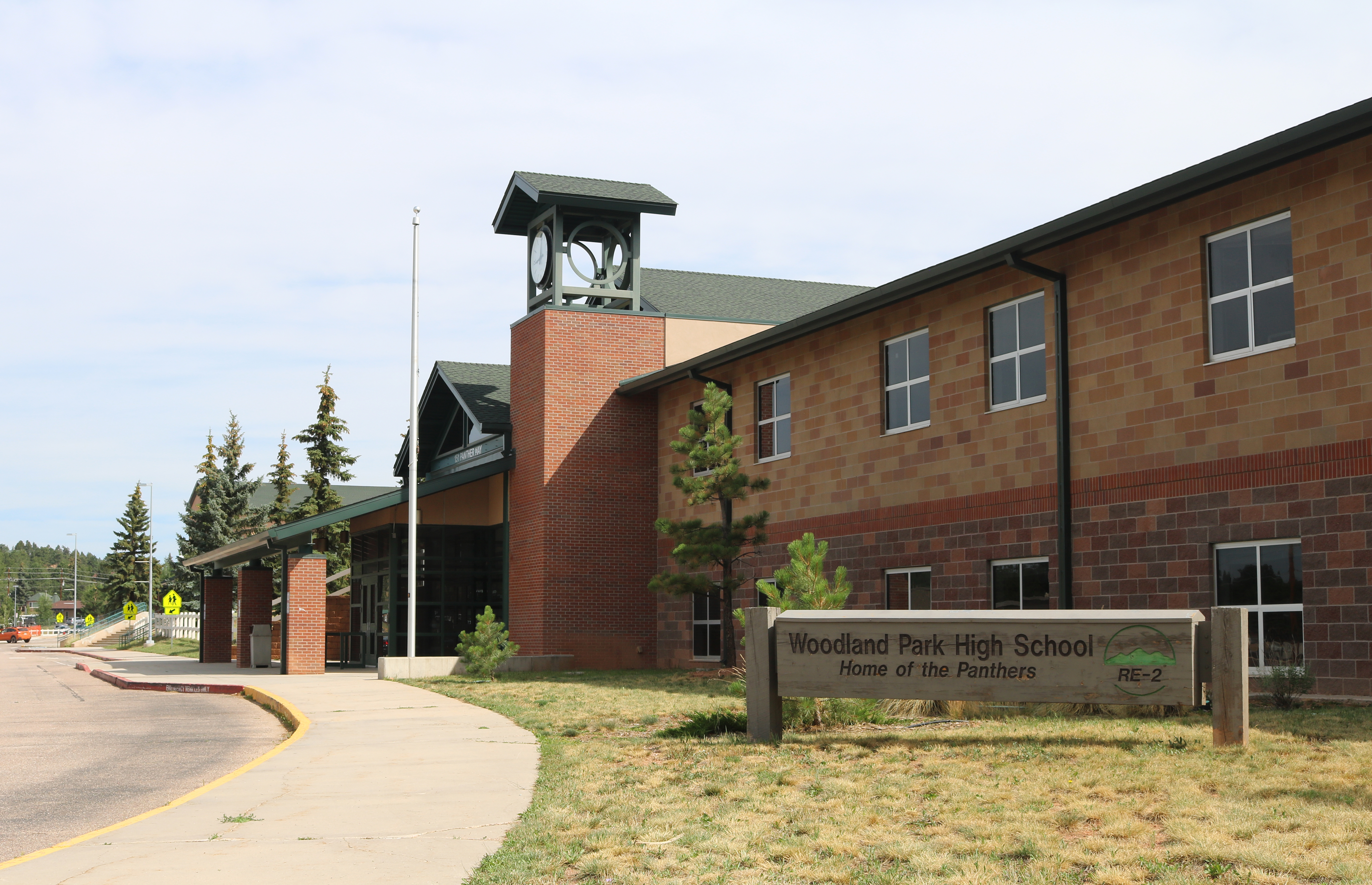 Woodland Park High School, located at 151 Panther Way in Woodland Park, Colorado.